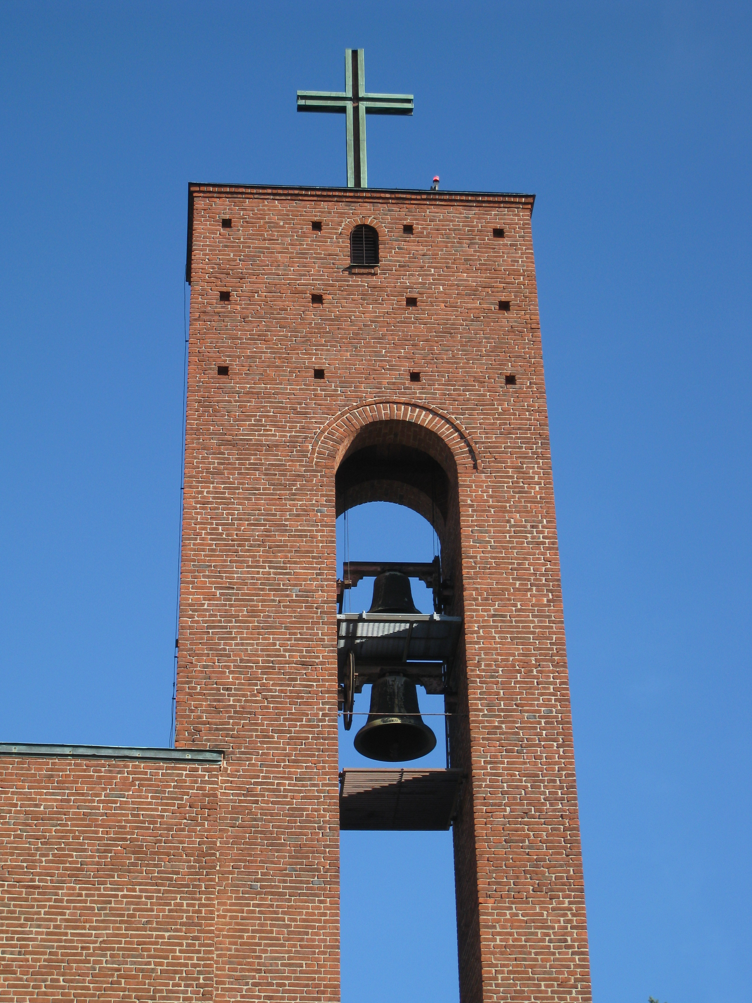 Västerledskyrkan, church in Bromma, Stockholm, Sweden